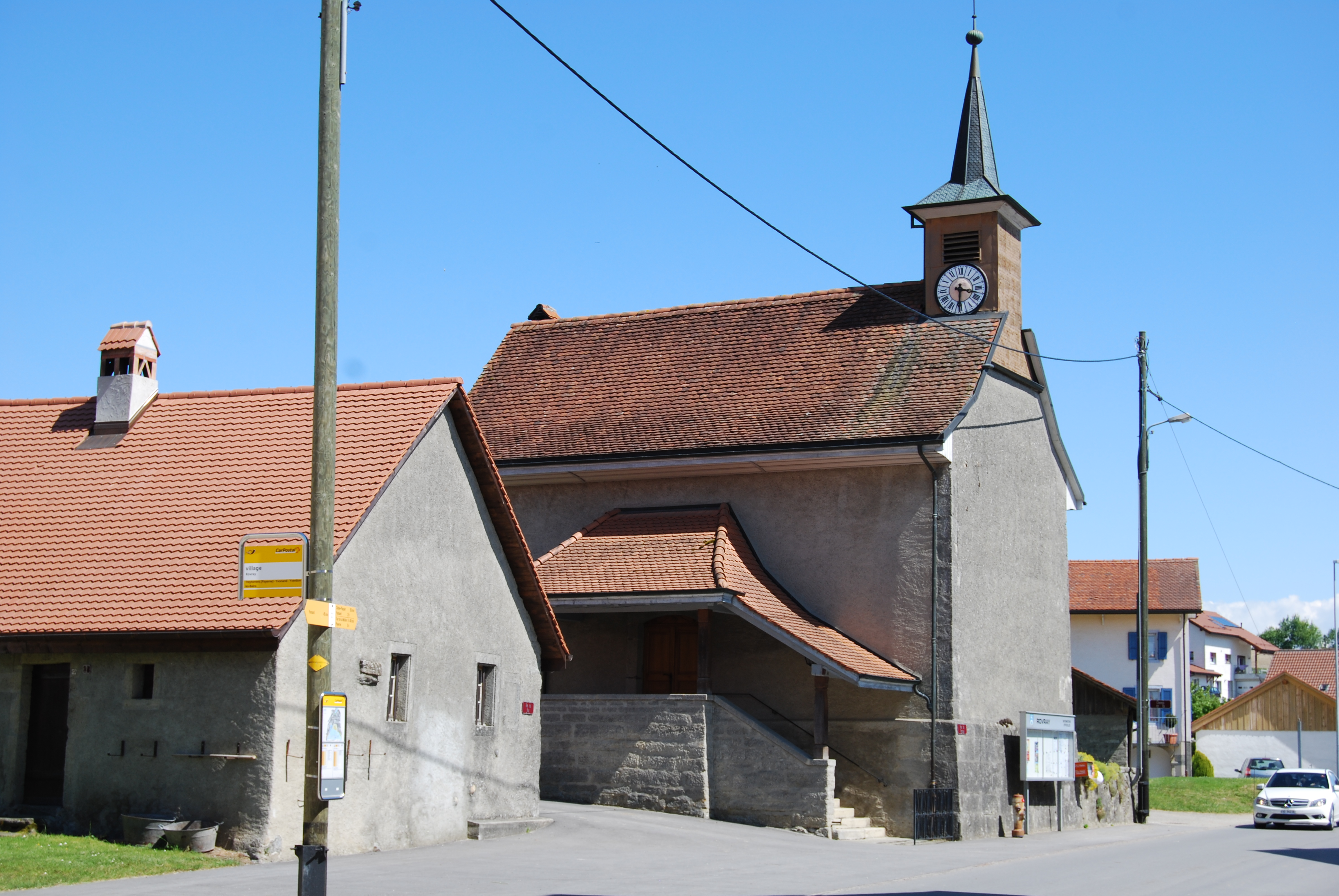 Church of Rovray, canton of Vaud, Switzerland